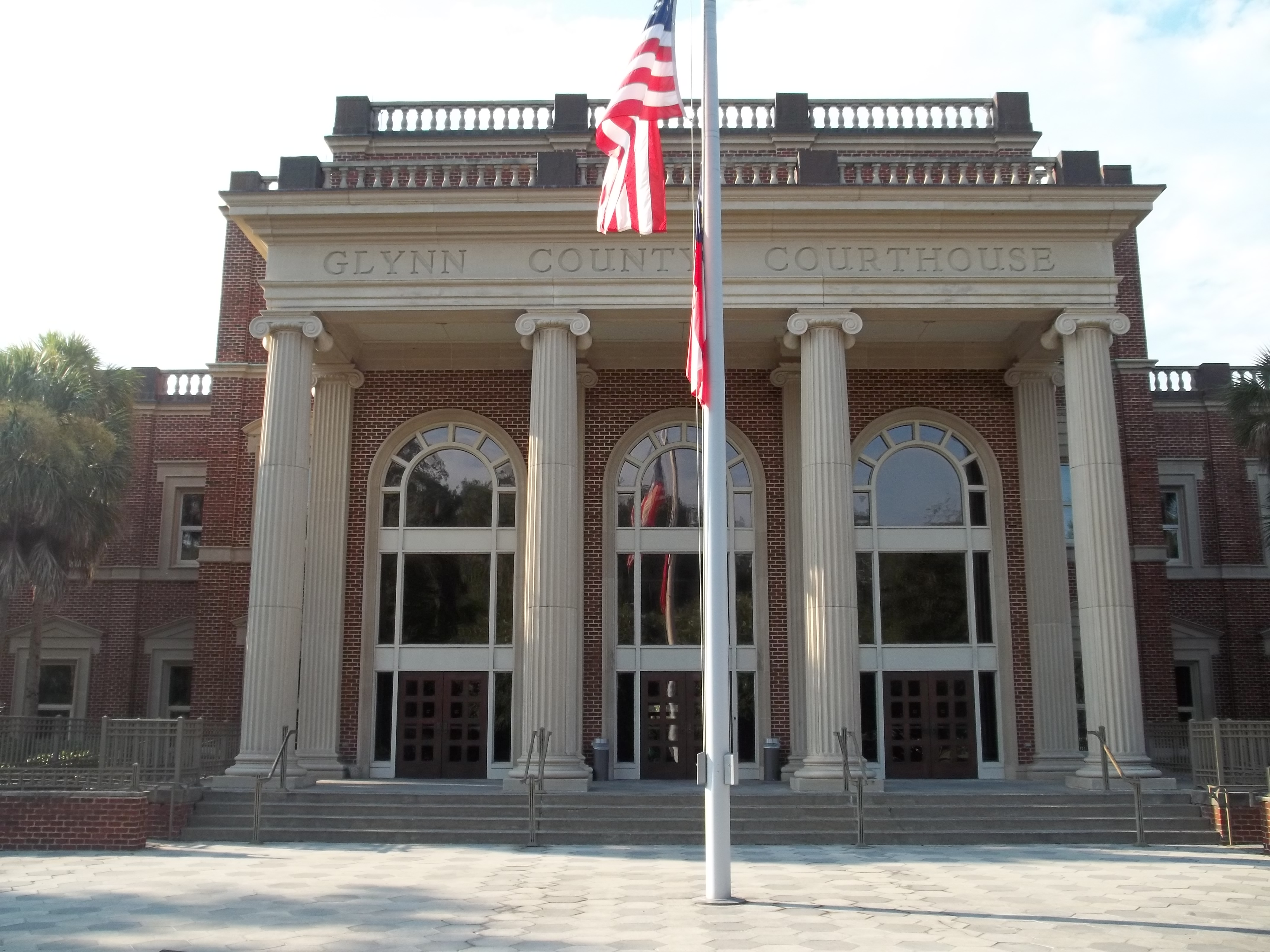 Brunswick, Georgia: Brunswick Old Town Historic District: New courthouse, built in 1991.